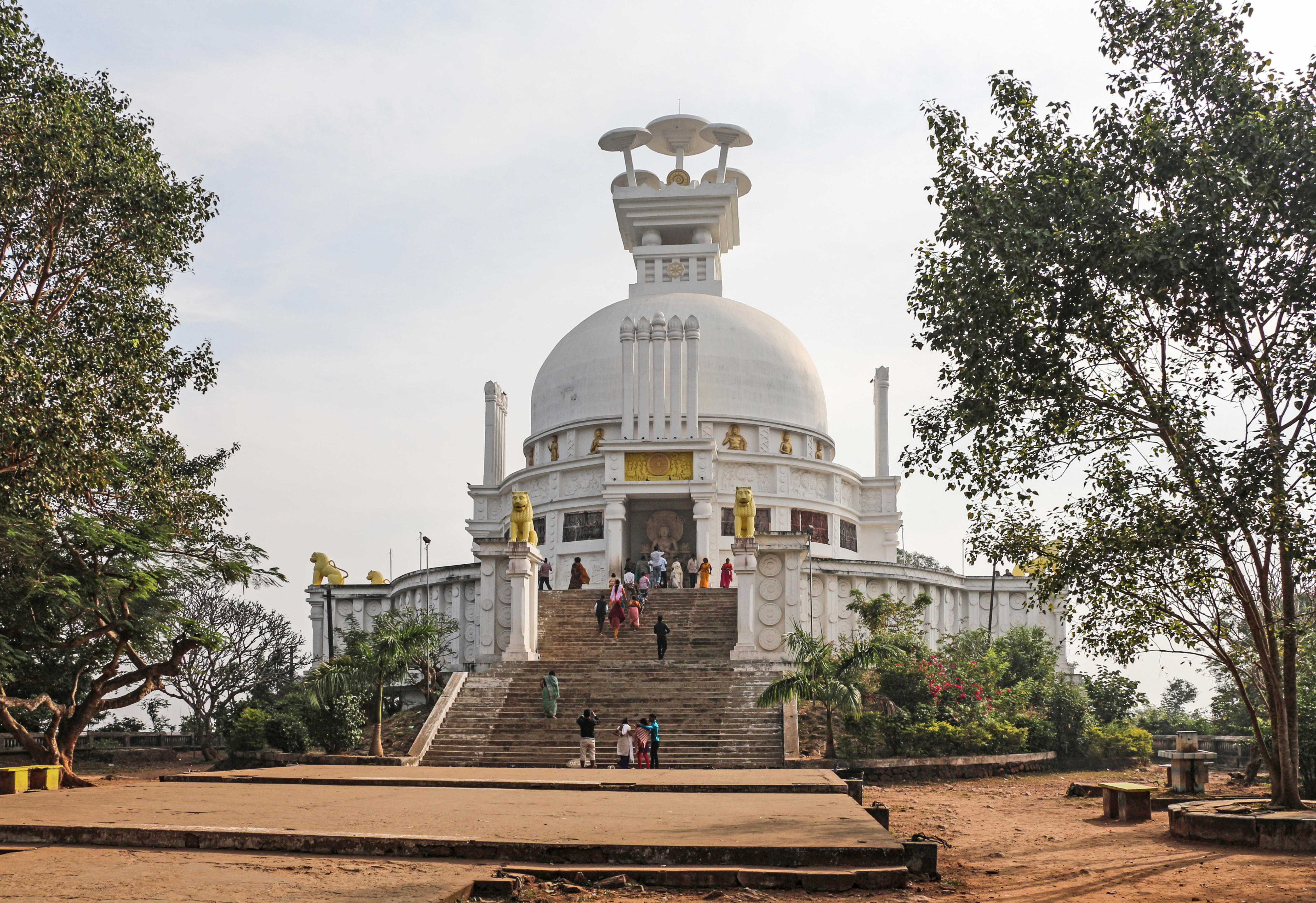 The Shanti Stupa at Dhauli, Odisha, India